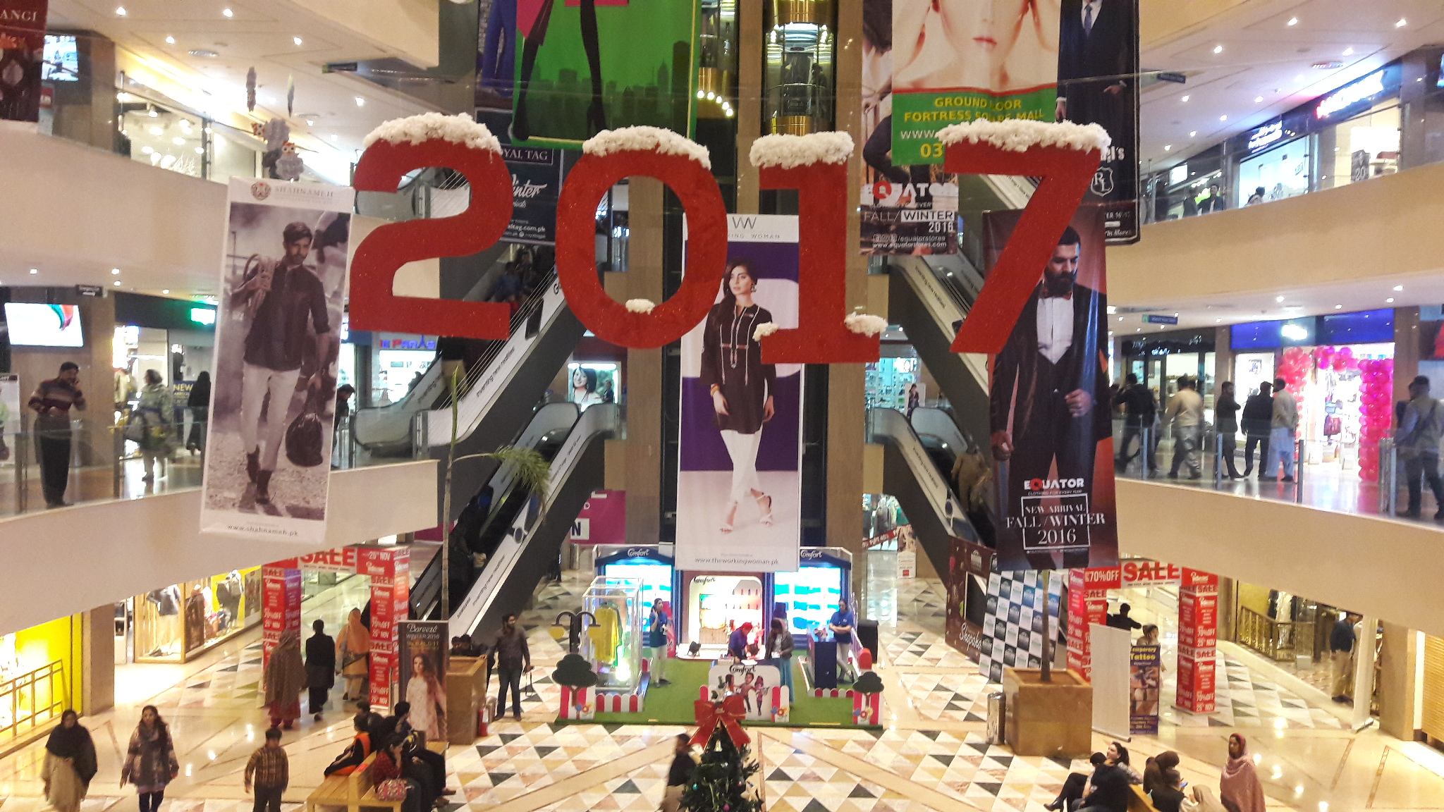 Fortress Square, Lahore